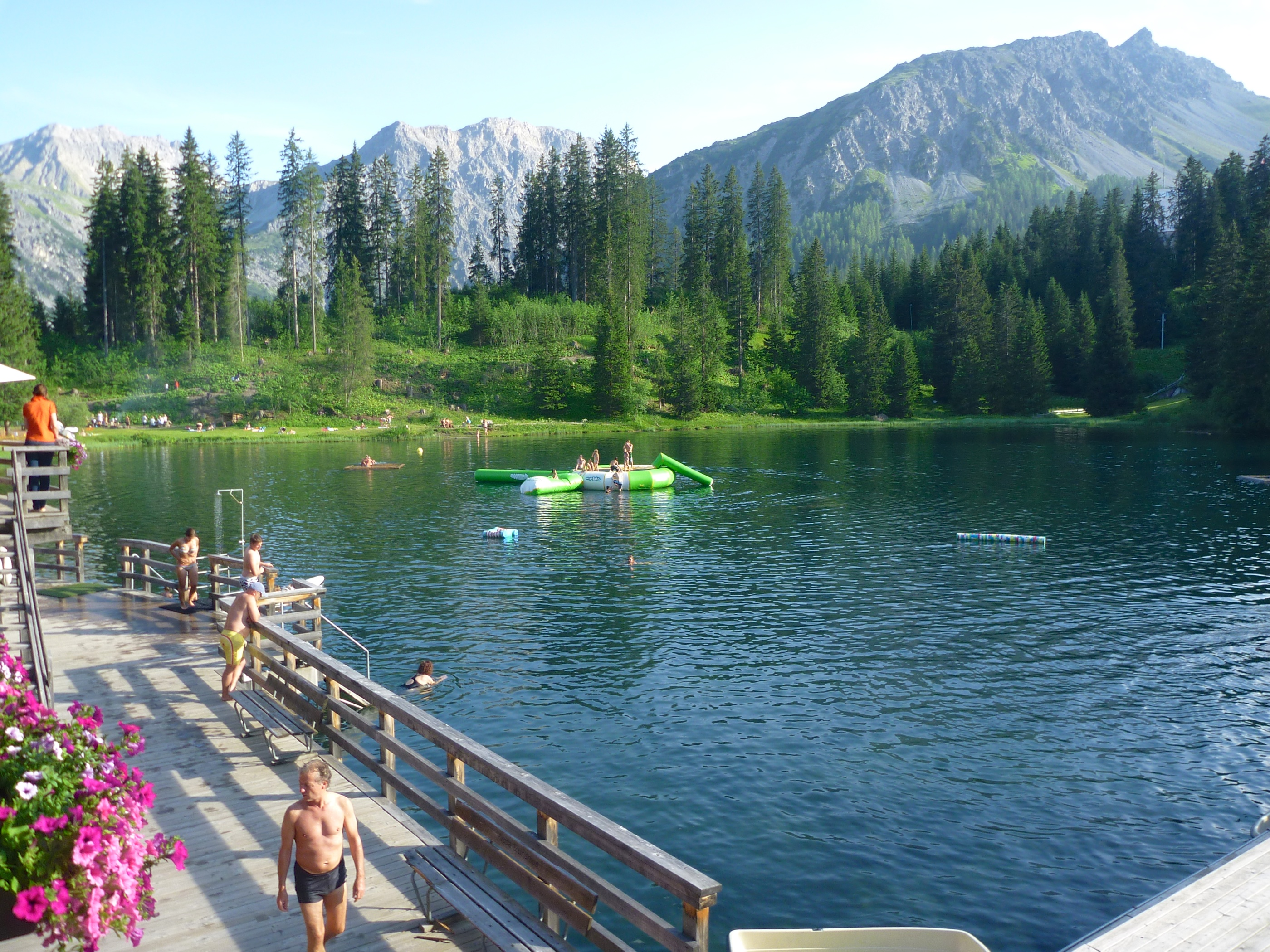 Bathing season at Untersee Arosa, Switzerland